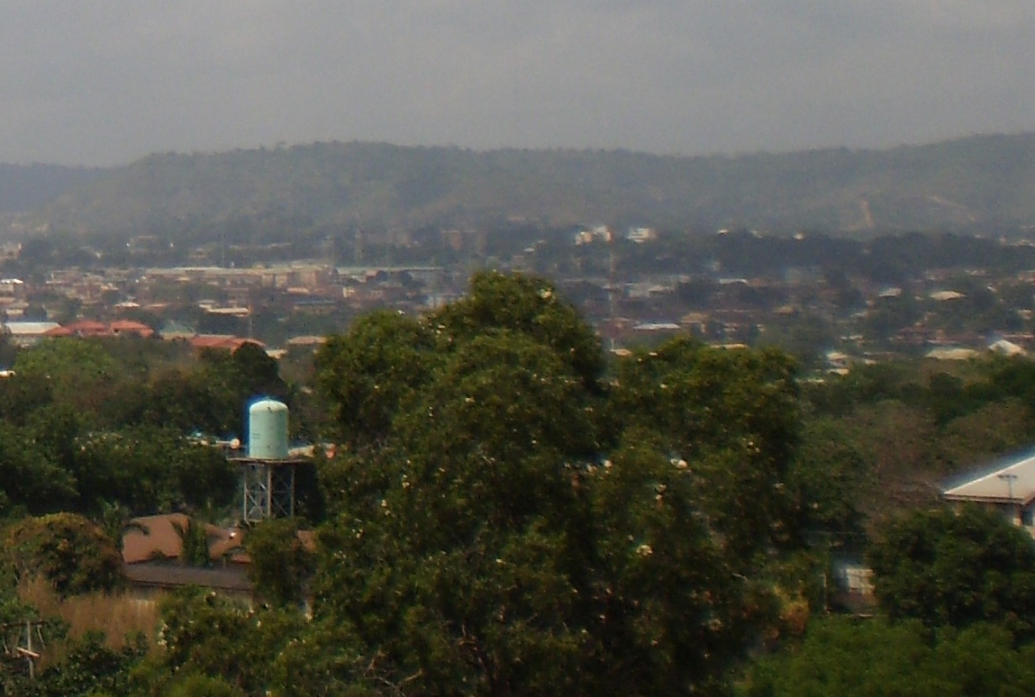 A8 Deployment in Enugu, Nigeria